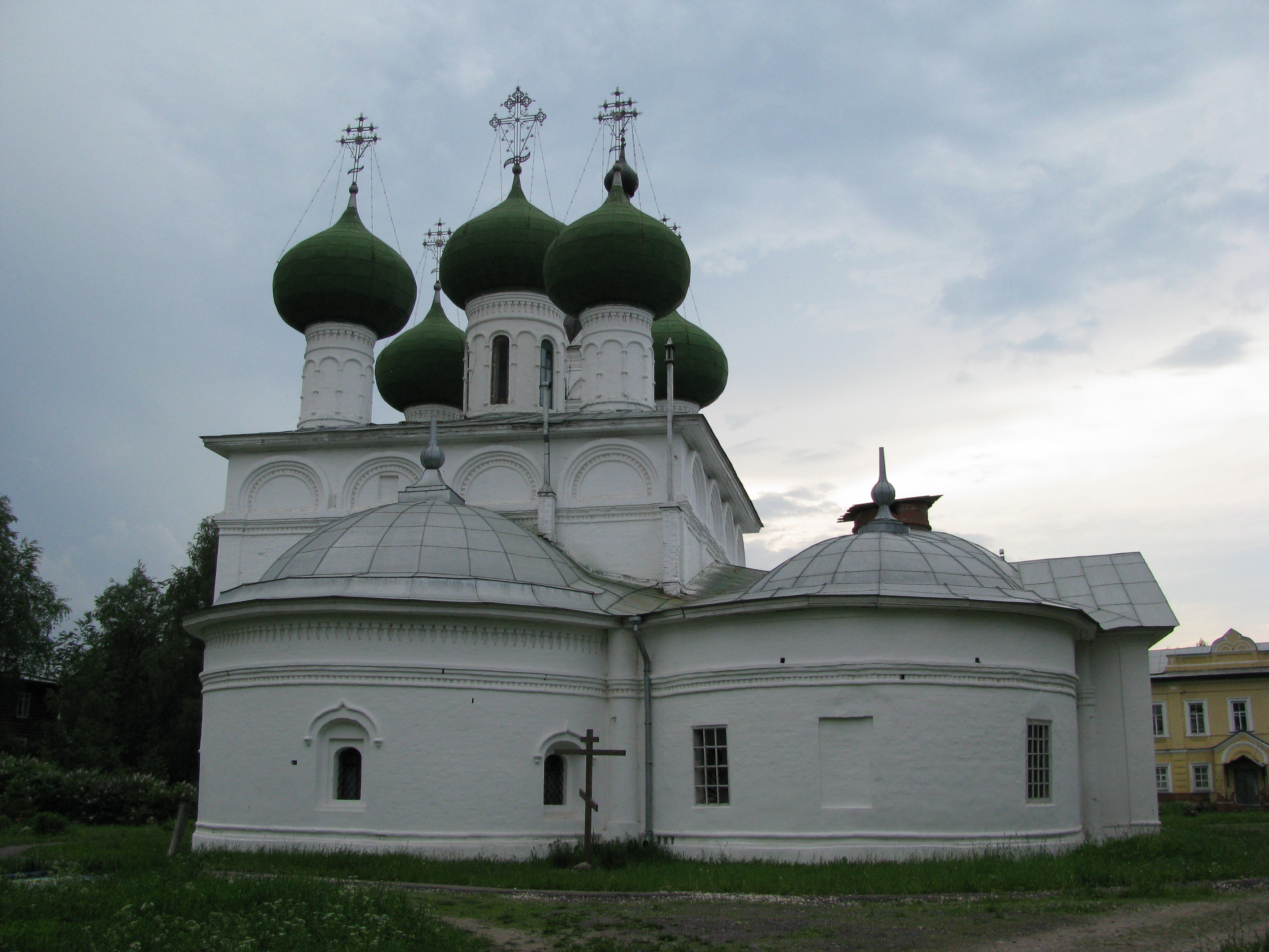 Dormition church in Gorny monastery in Vologda